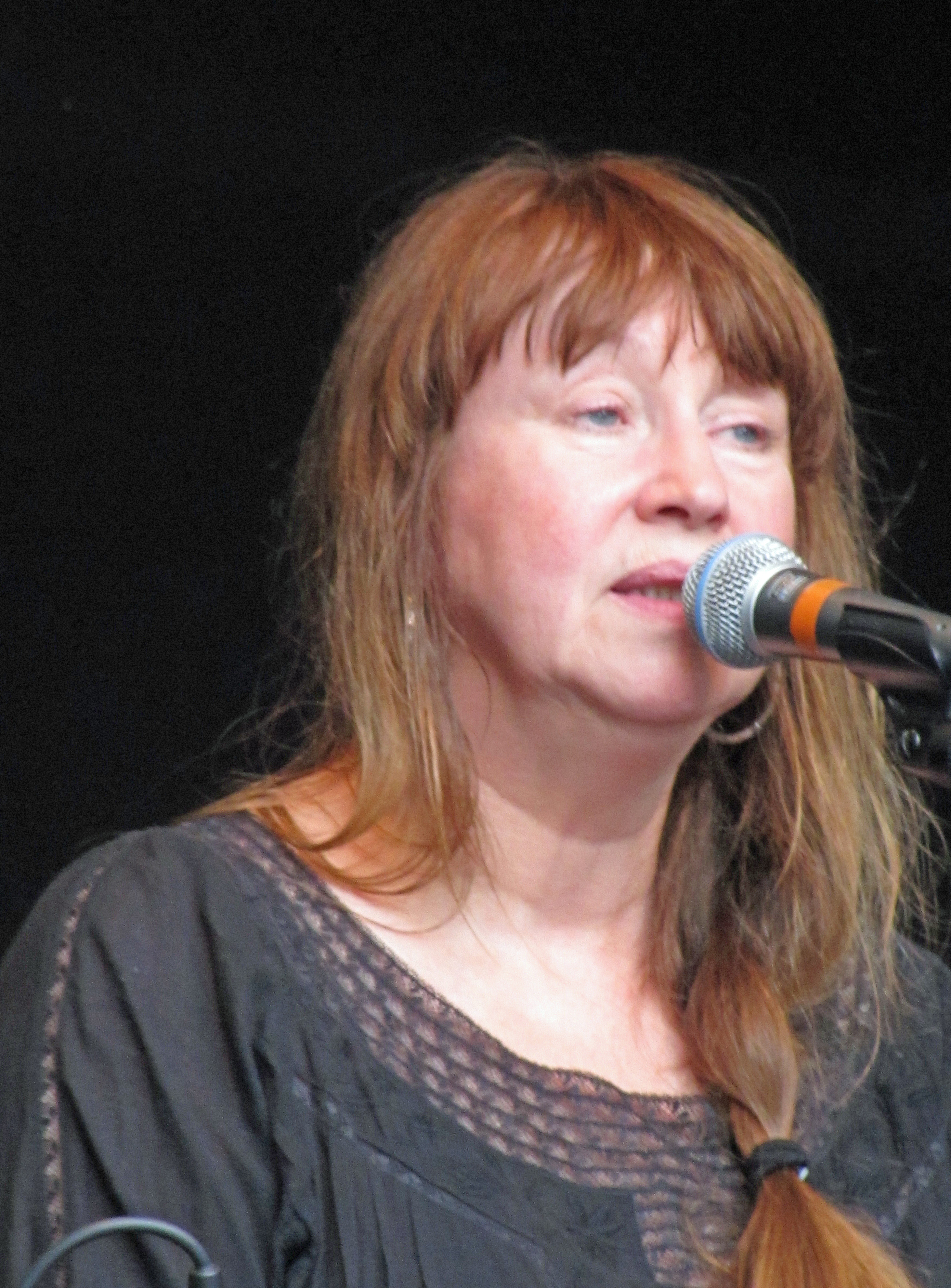 Sidsel Endresen (with Hakon Kornstad), 2010 in Frankfurt am Main, at garden of "Liebieghaus" (museum), Germany.